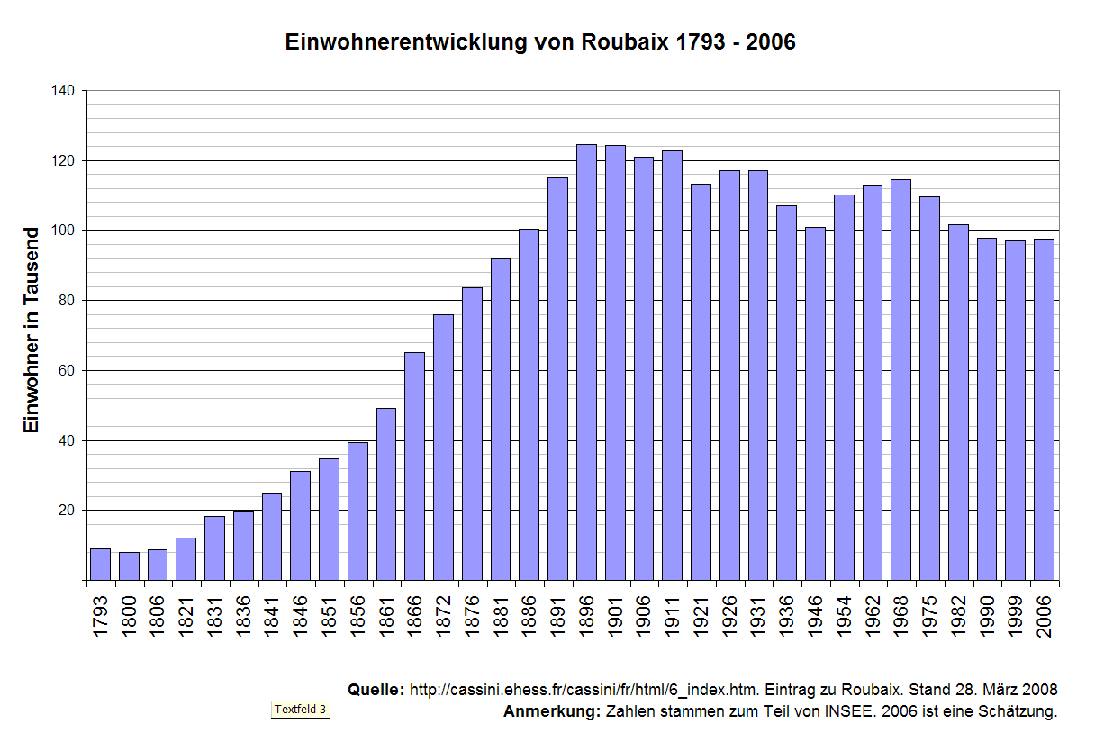 Population development of Roubaix (France). Entry for Roubaix. As of 28 March 2008